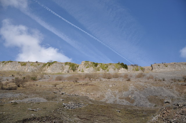 Western scree slopes of Cefn Cil-Sanws Viewed from the A470.